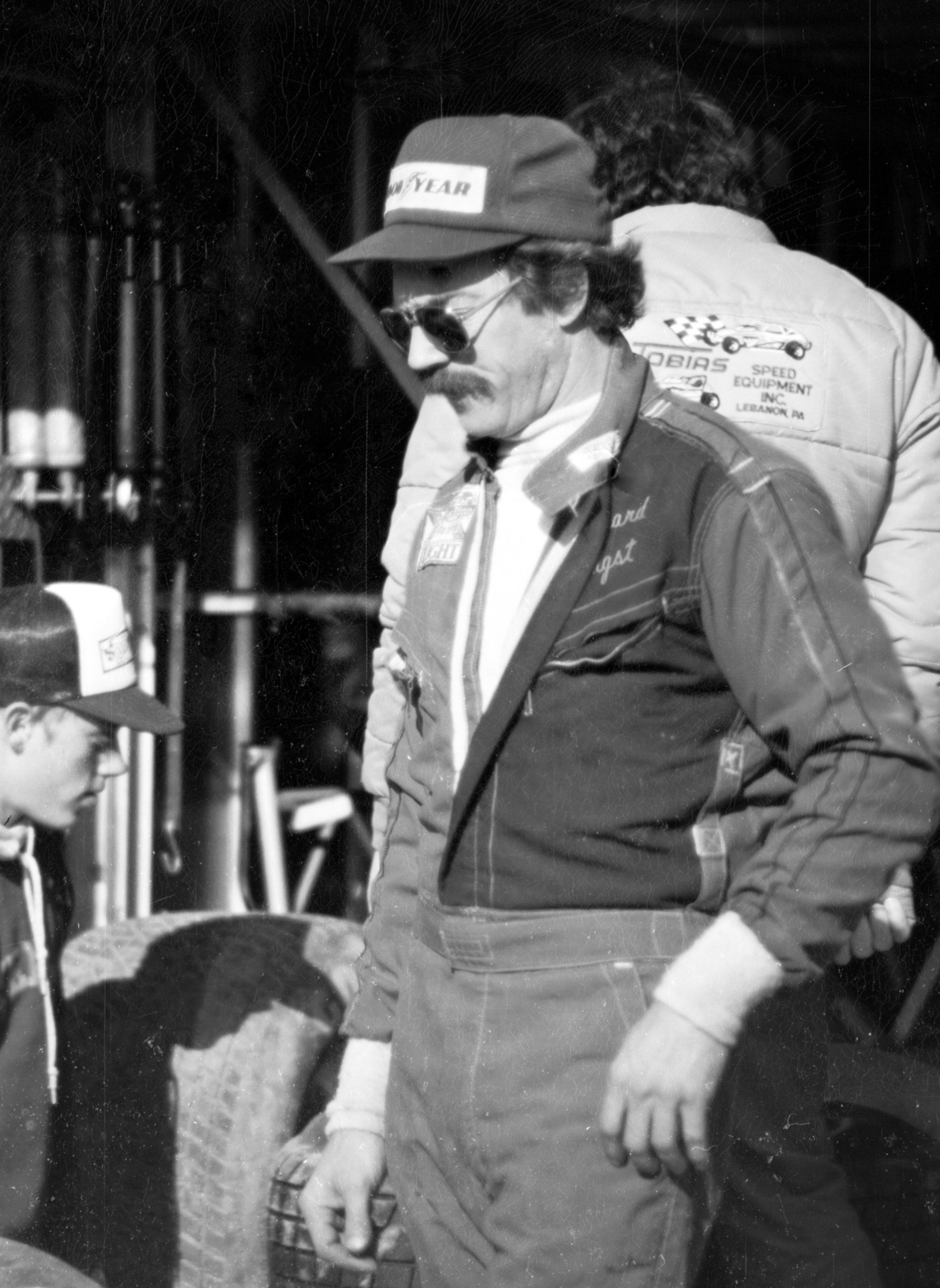 Sprint car racer and national drag racing championship crew chief Maynard Yingst in the pits with his sprint car in 1985. Photo By Ted Van Pelt